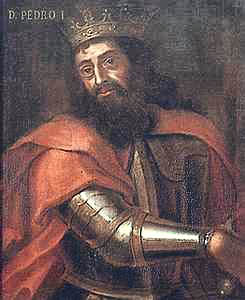 Peter I of Portugal